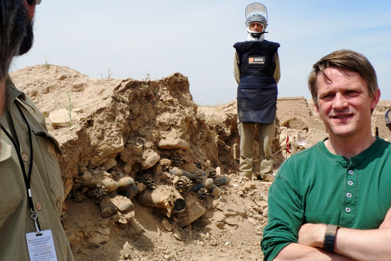 Principal Deputy Assistant Secretary Thomas M. Countryman works to remove landmines in Afghanistan in May 2010. [State Department Photo/Public Domain]